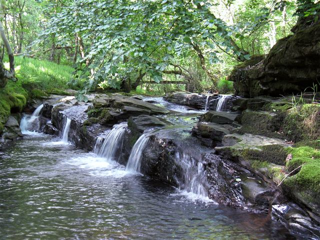 Cascades on the Lower Clydach River. A rare waterfall on this section of the river. In the background, upstream, the footbridge 846486 can be seen.